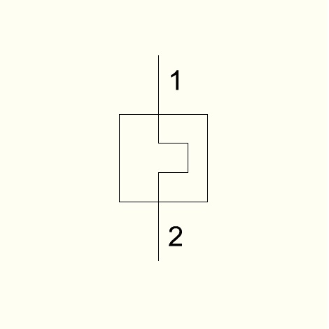 Symbol of 1-pole thermorelay